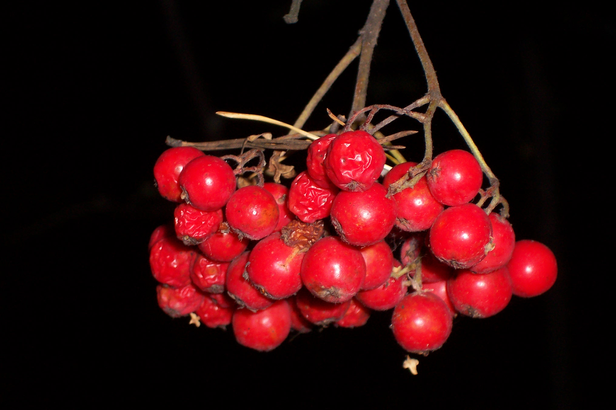 Berries of rowan on black background